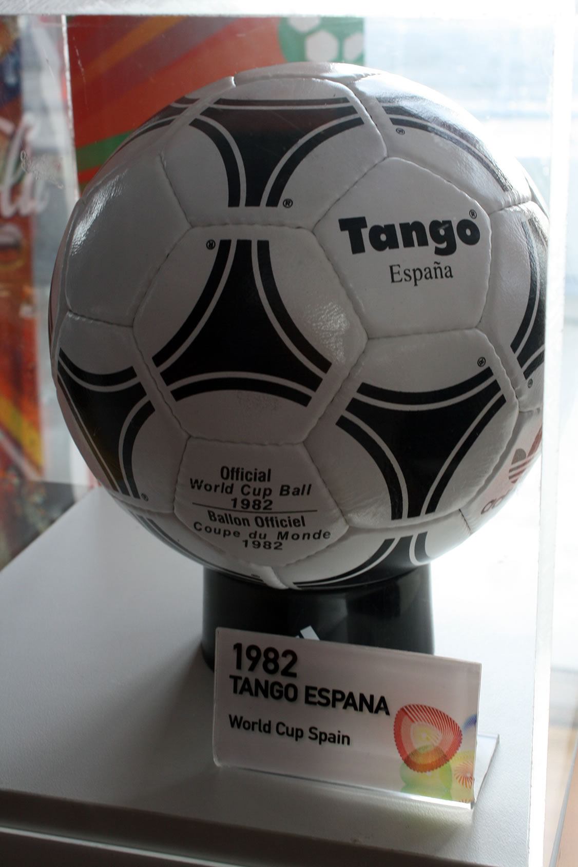 Adidas Tango Espa�a was the Official Match Ball for the 1982 FIFA World Cup Spain. "The Tango Espa�a had improved water resistant qualities through its rubberized seams. These were not very resistant and resulted in the ball having to be changed several times during some games. This ball was the last genuine leather ball to be used in the world cup."